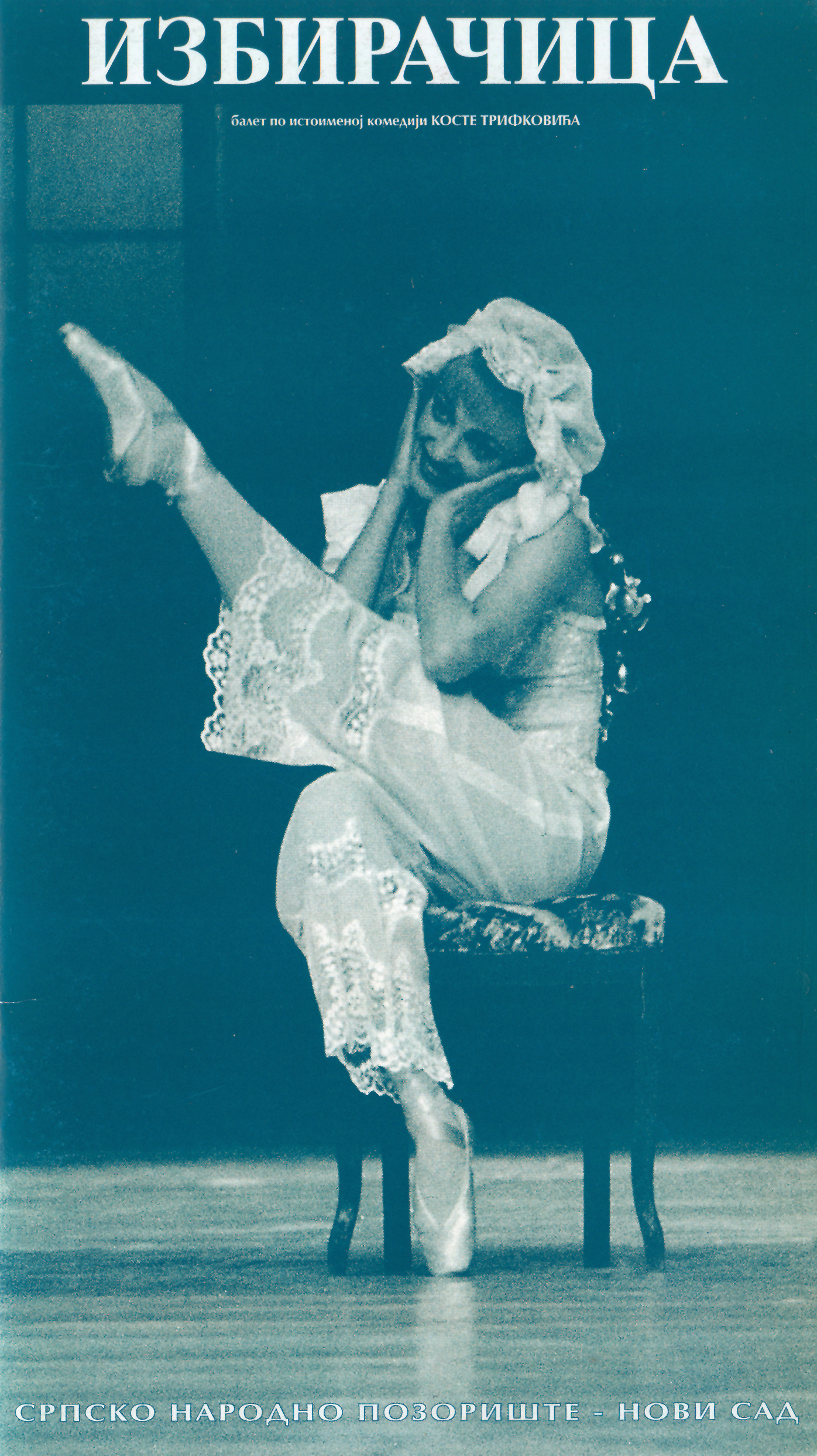 Brochure for Picky Girl by Kosta Trifković, ballet by the same name comedy, Serbian National Theater, Novi Sad Srpski (latinica): Programska knjižica Izbiračica Koste Trifkovića, Balet po istoimenoj komediji, Srpsko narodno pozorište, Novi Sad Аҧсшәа: Програмска књижица за балет Избирачица по истоименој комедији Косте Трифковића, Српско народно позориште, Нови Сад